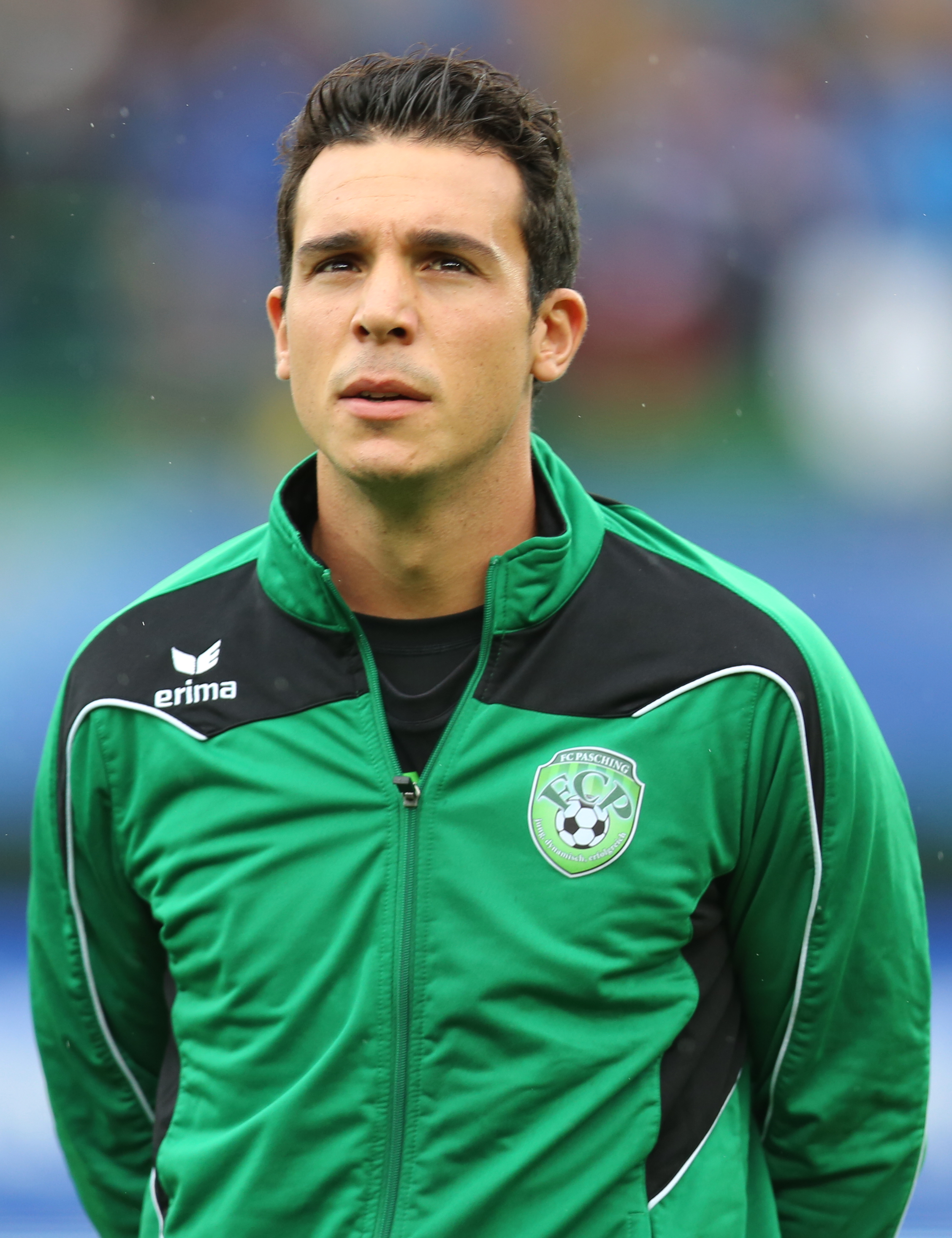 ÖFB-Cupfinale am 30. Mai 2013 im Ernst-Happel-Stadion (FC Pasching gegen FK Austria Wien 1:0). Im Bild der Stürmer Ignacio Diaz-Casanova Montenegro (FC Pasching). The making of this work was supported by Wikimedia Austria. For other files made with the support of Wikimedia Austria, please see the category Supported by Wikimedia Österreich.